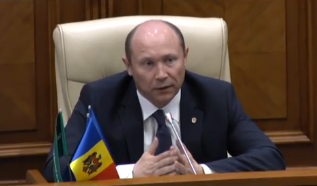 Moldovan politician Valeriu Streleț